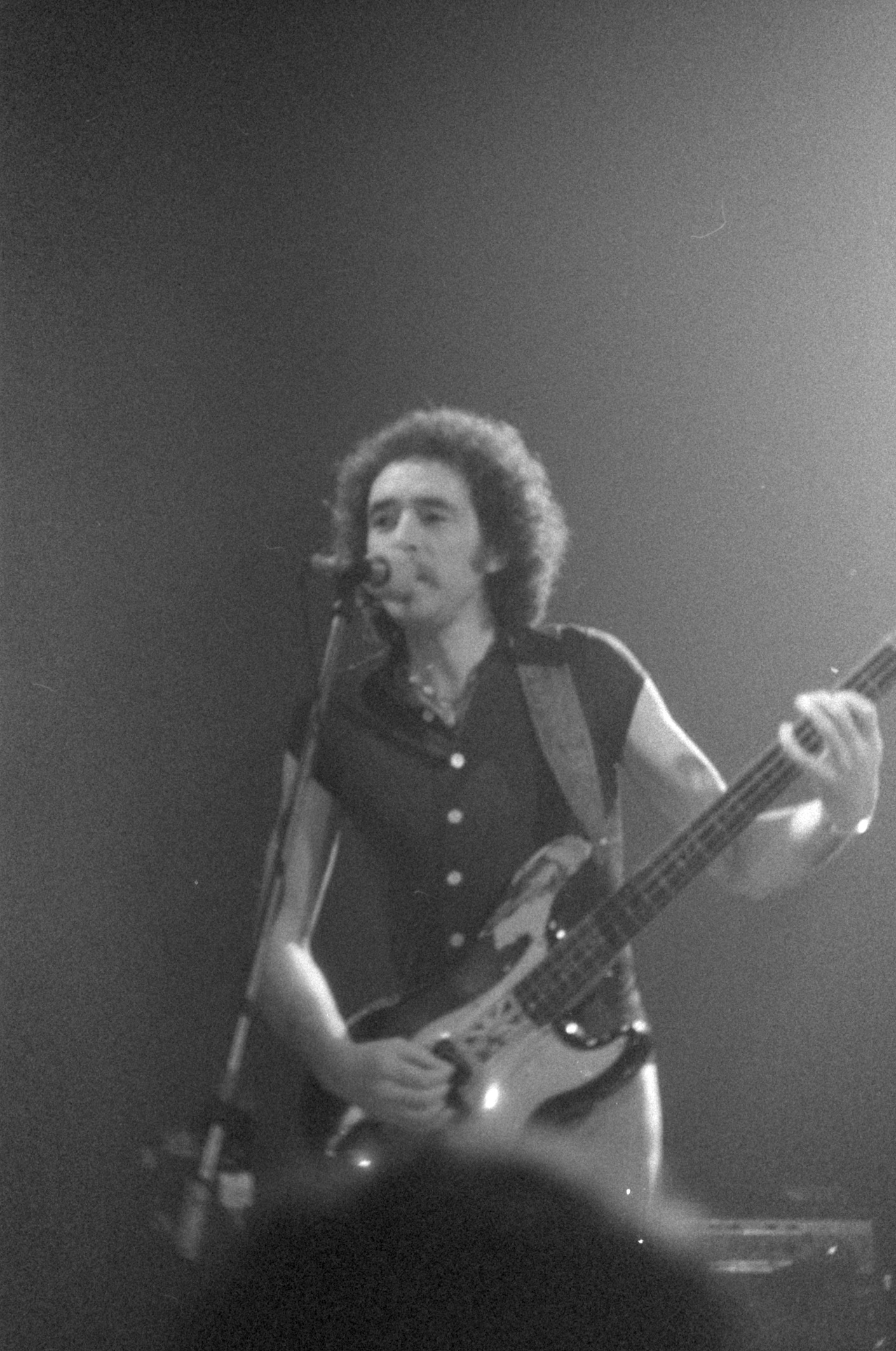 James "Jim" Dewar in concert